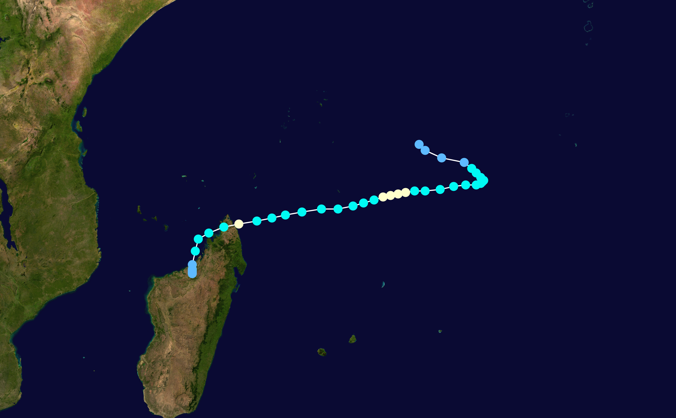 Cyclone Kesiny (2002) track. Uses the color scheme from the Saffir-Simpson Hurricane Scale.